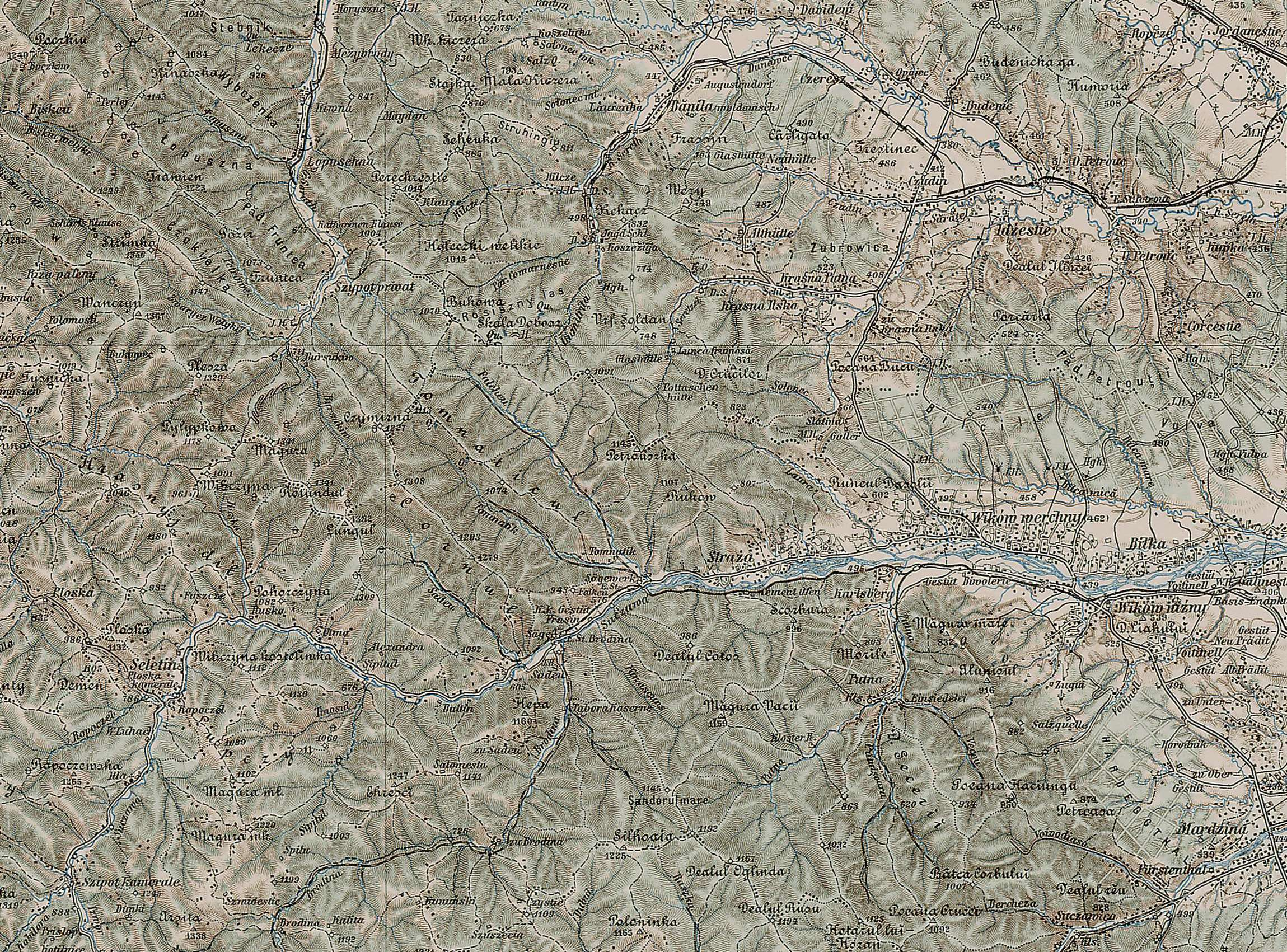 This file has been extracted from another file: Siniatyn - 43-48.jpg